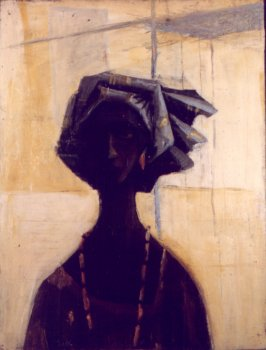 National Archives at College Park (a.k.a. "Archives II"), located in College Park, Maryland, USA. It opened in 1994 to mainly preserve photographs and graphic images. It is adjacent to the University of Maryland College Park campus.